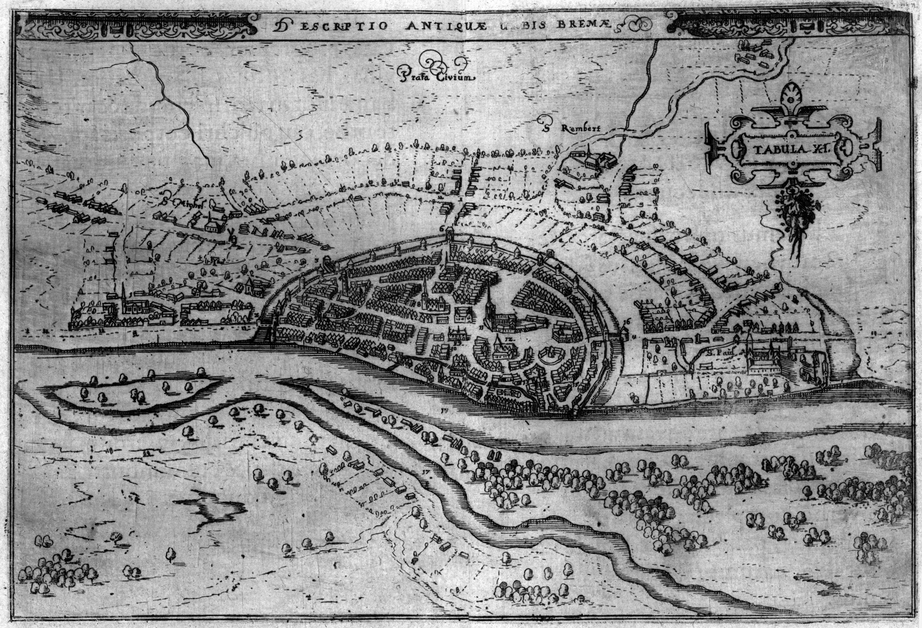 Map showing the city of Bremen (Germany) in the 13th century, made by Wilhelm Dilich and published 1604 in Urbis Bremae et praefecturarum, quas habet, typus et chronicon.